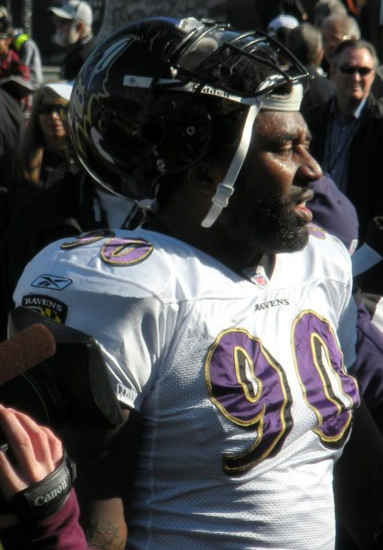 90 Defensive Tackle Trevor Pryce - Baltimore Ravens